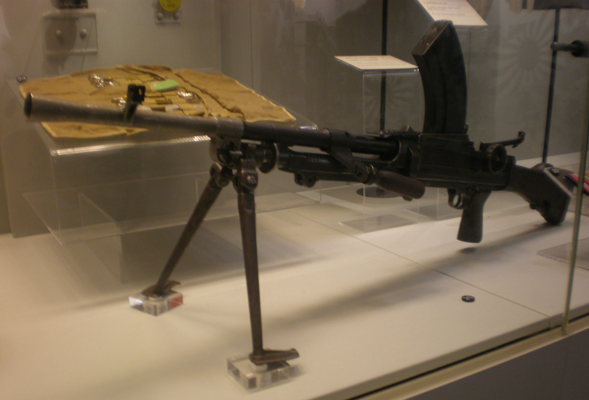 A Bren gun on display at the Hong Kong Museum of Coastal Defence.